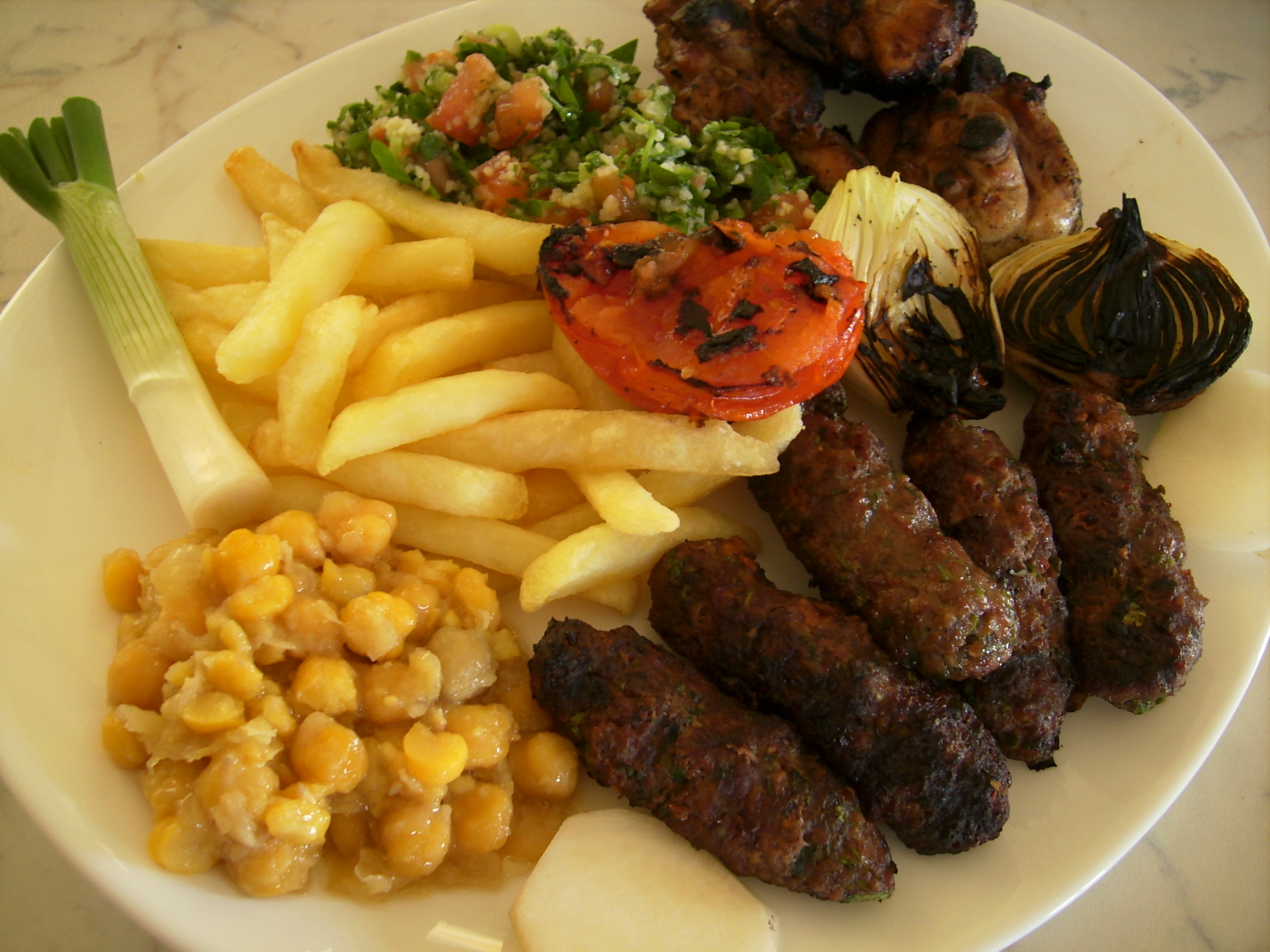 An array of grilled Lebanese cuisine.